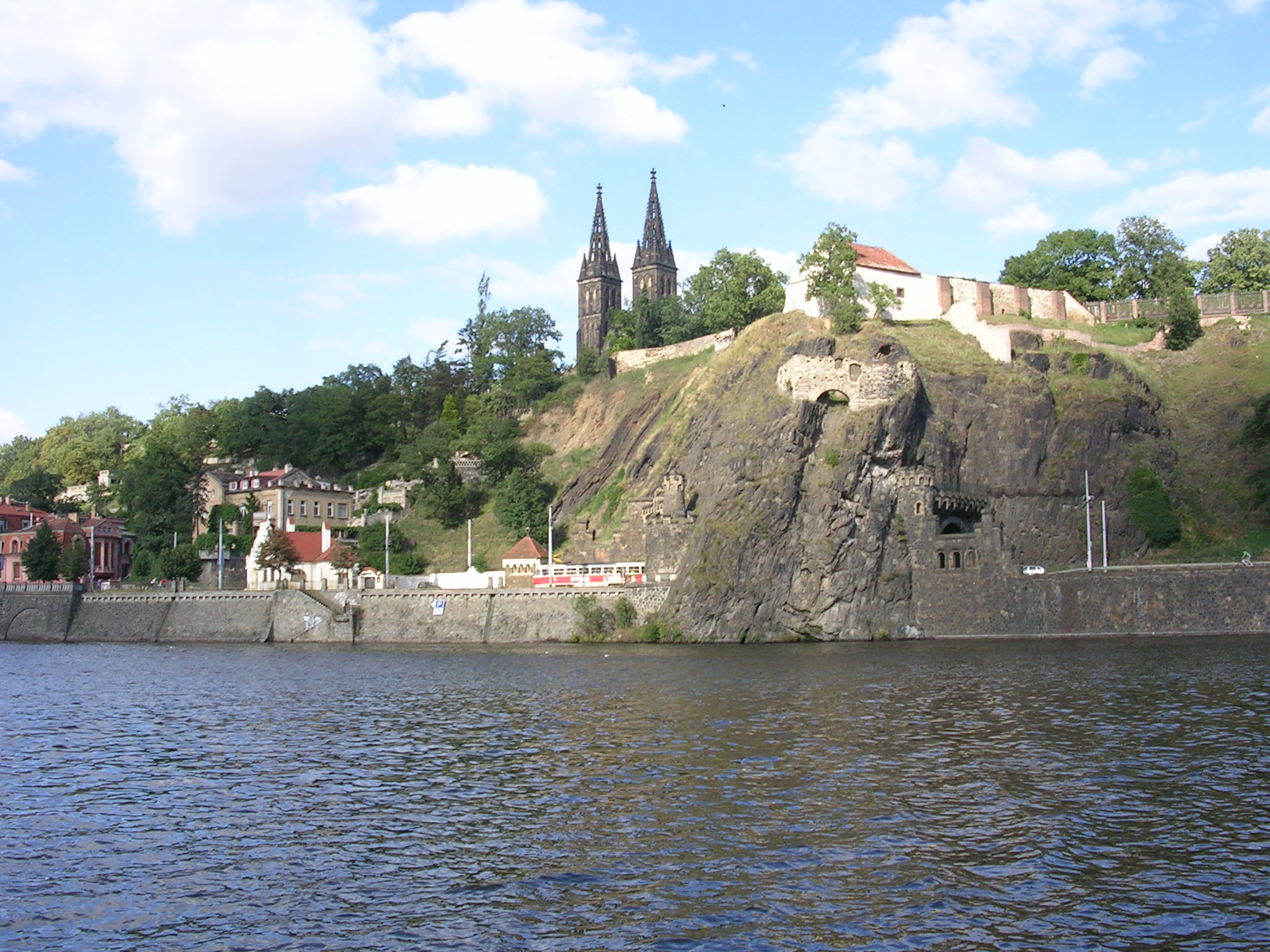 Vyšehrad, Prague, the Czech Republic.